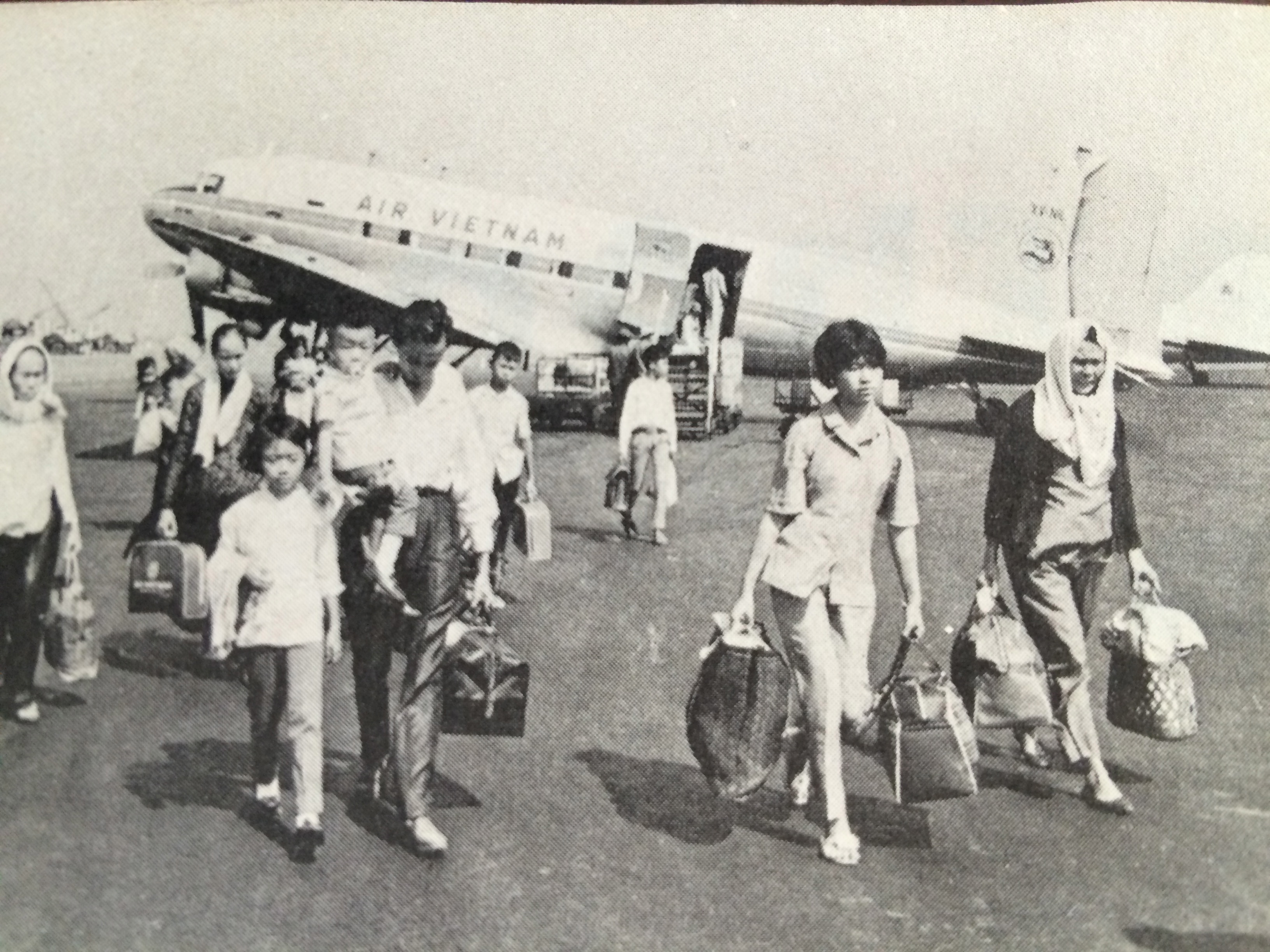 Passengers disembarking from an Air Vietnam flightTiếng Việt: Hành-khách quốc-nội Air Vietnam xuống máy bay